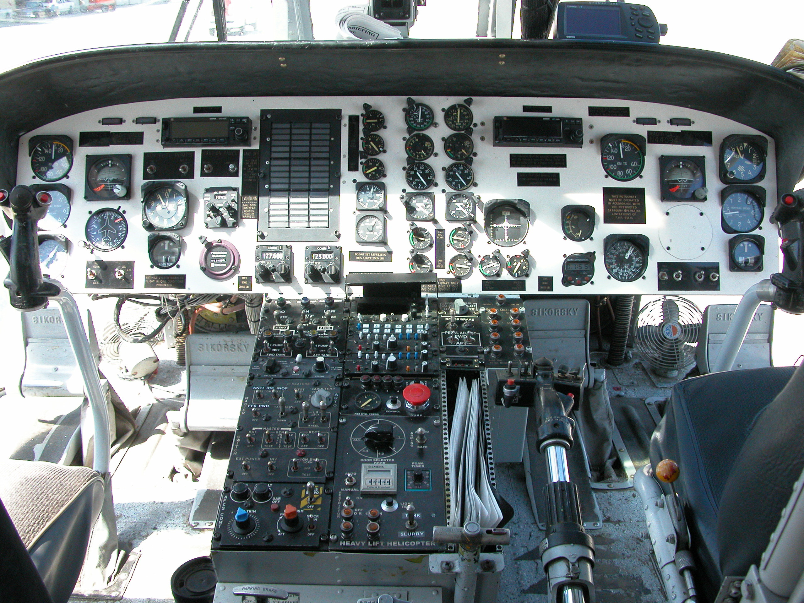 Sikorsky CH-54A cockpit, operated by Heavylift